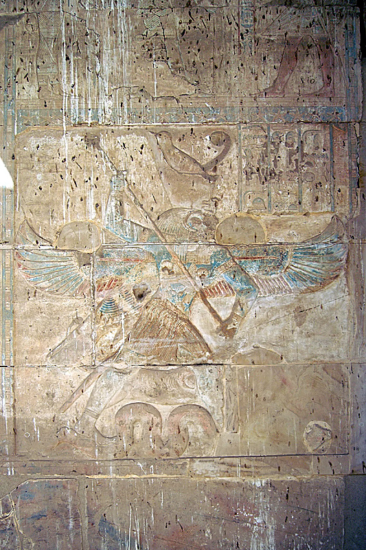 Temple of Hibis, first hypostyl, the relief shows the hawk-headed Seth slaying a snake, el-Kharga depression, Libyan desert, Egypt